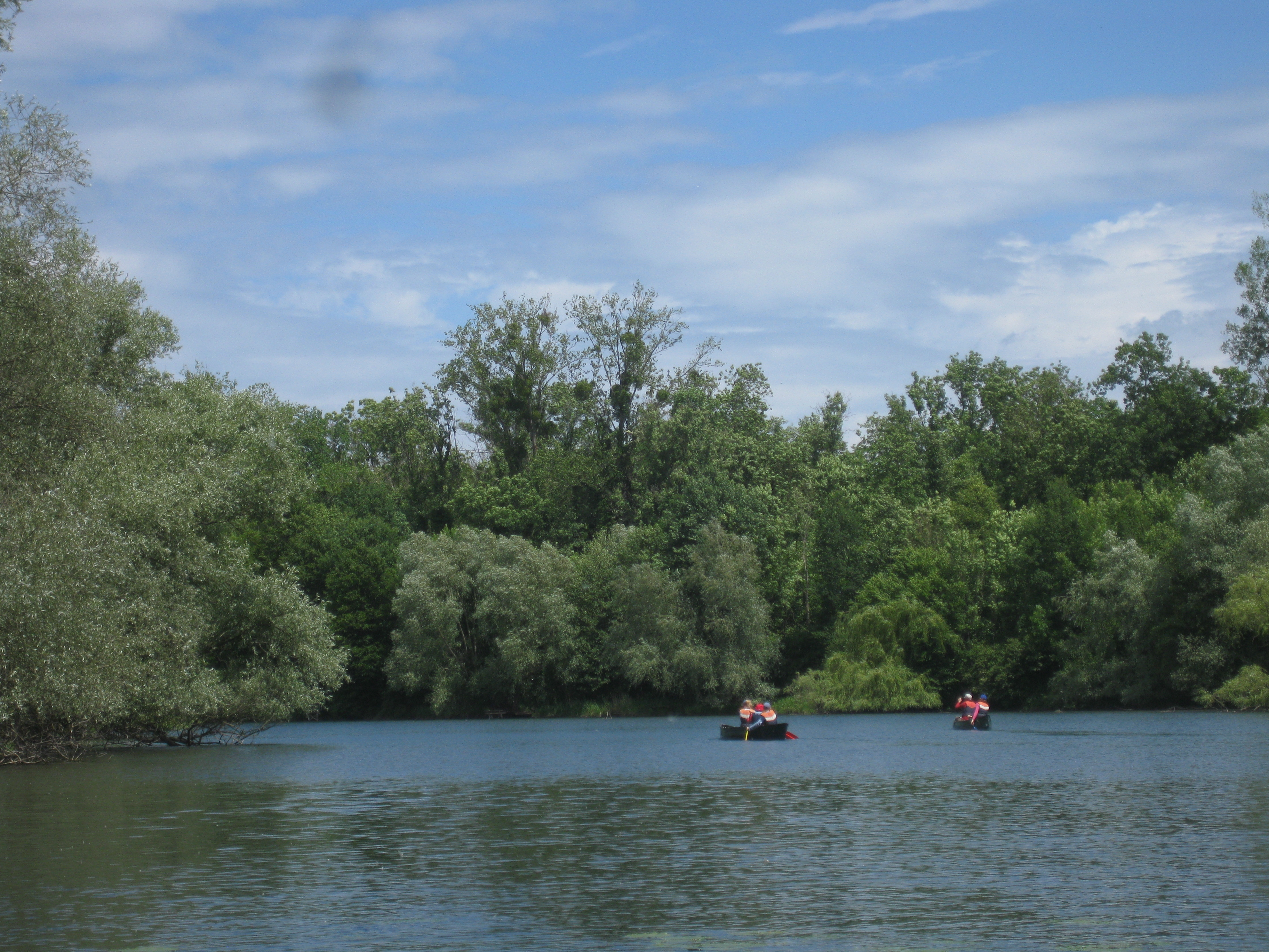 Rheinseitenkanal (Groschenwasser)